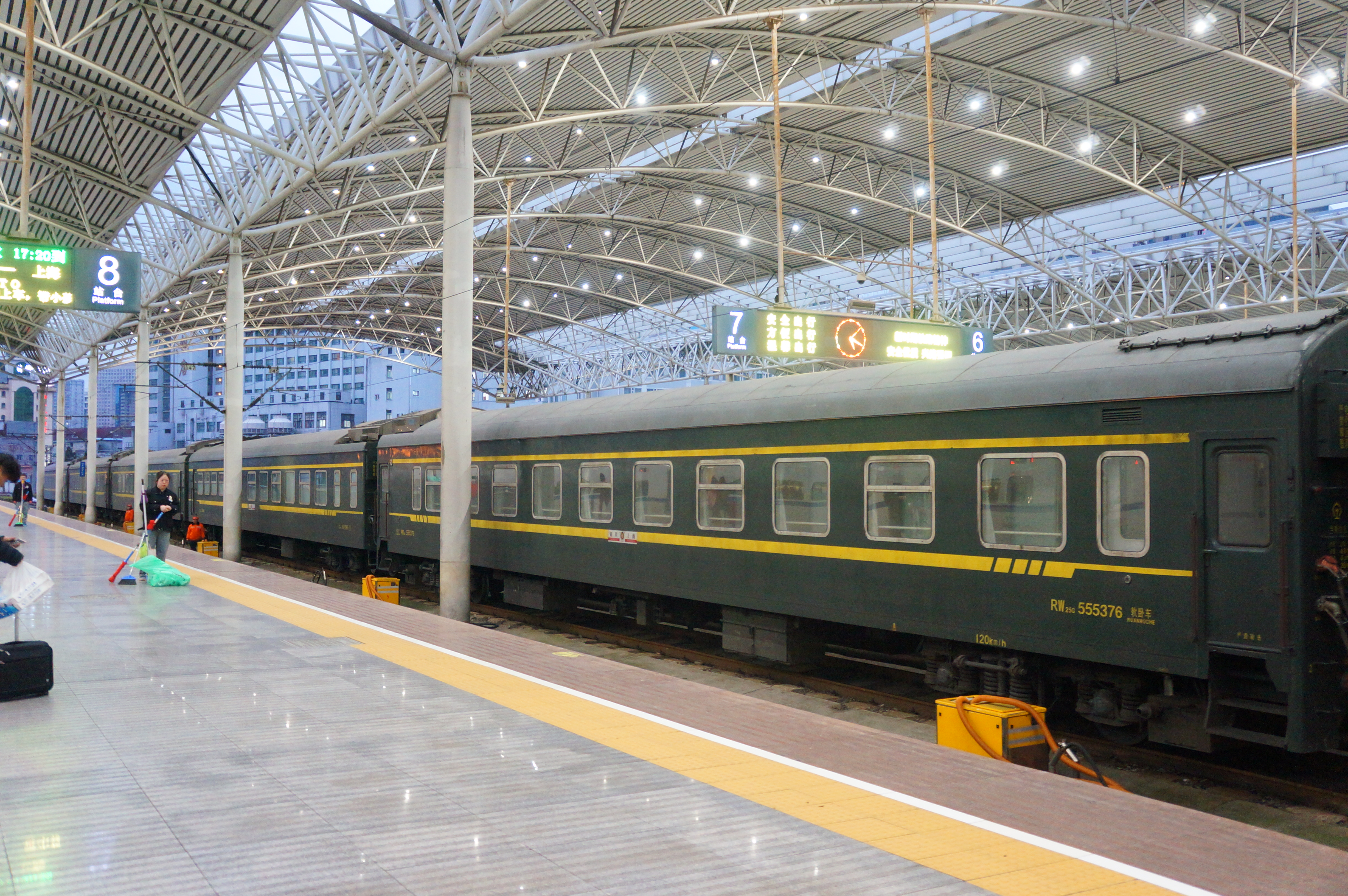 201701 K1332 waits for departure at Shanghai Station